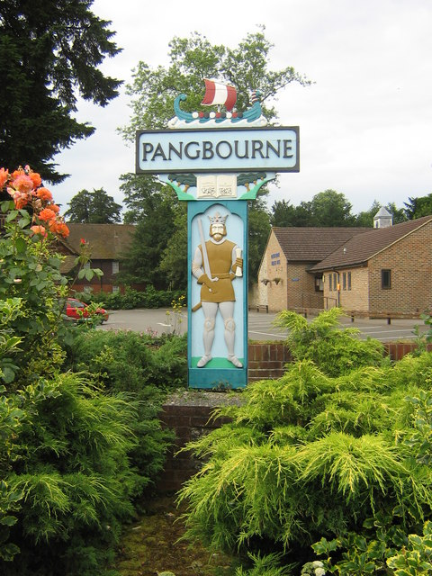 Village name sign - Pangbourne. At the entrance to the village, near the village hall, is this sign with a viking ship atop it, reflecting some of Pangbourne's past. It's surrounded by pretty flowers and shrubs.